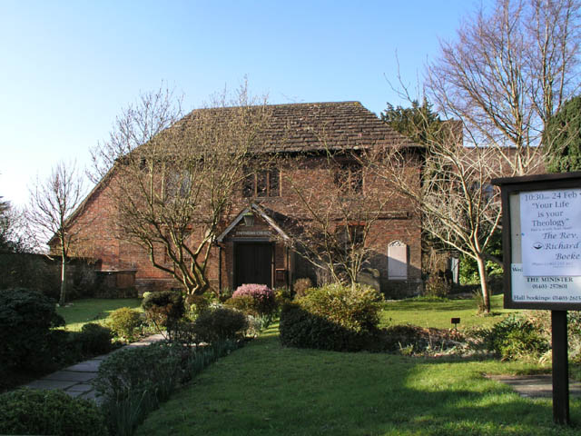 Unitarian Church, Horsham's second oldest surviving church it was built in 1721 to resemble a two-storey house and was set back from the road to avoid drawing unwanted attention at a time when religious non-conformity was a criminal offence. Horsham's first public library was housed in the hall of the church and Horsham's Museum Society started here. For more information see Horsham Unitarian Church and the excellent Hidden Horsham